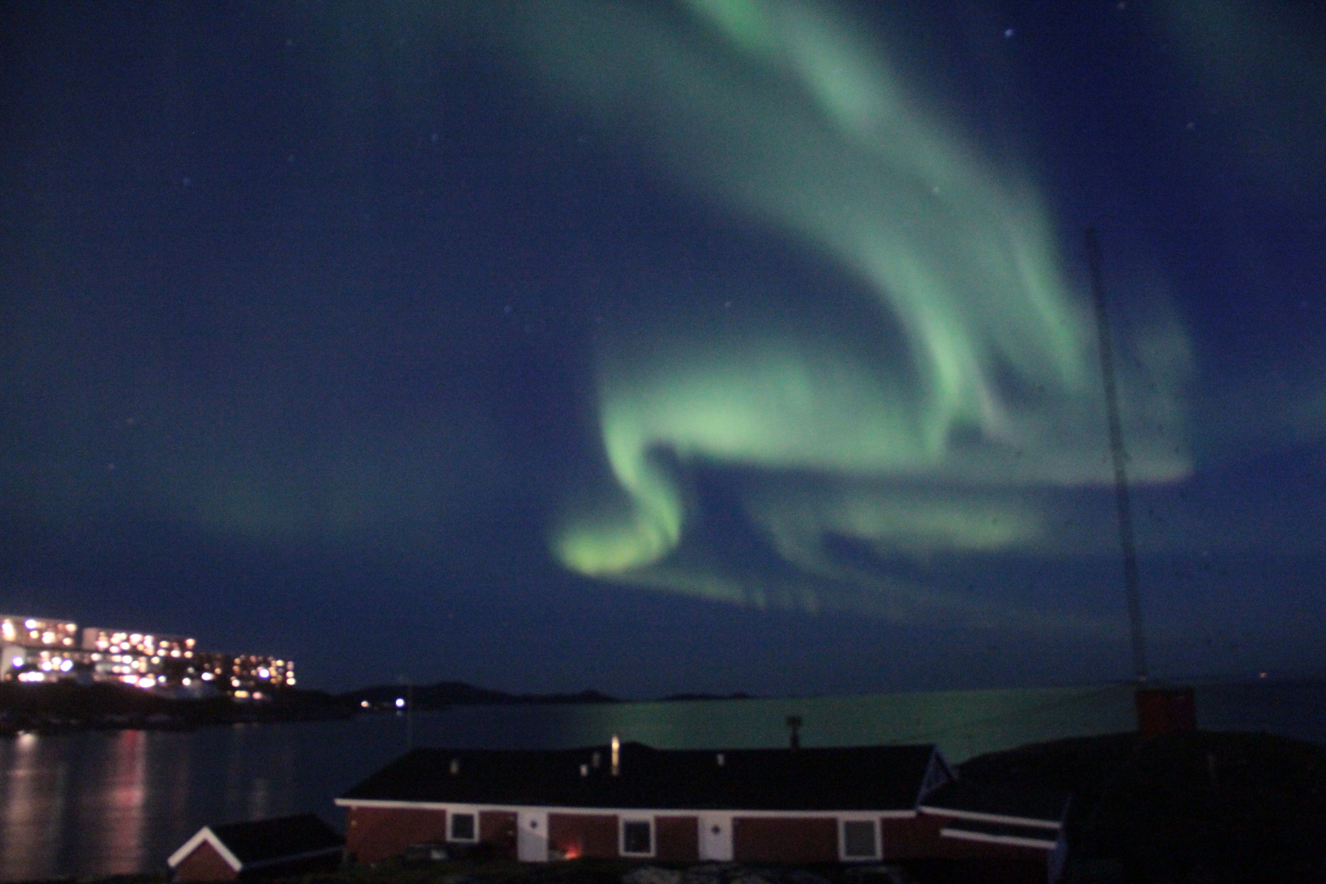 Nuuk Northern Lights